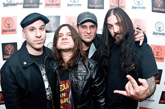 Life of agony: L-R Alan Roberts, Keith Caputo, Joey Z, Sal Abruscato